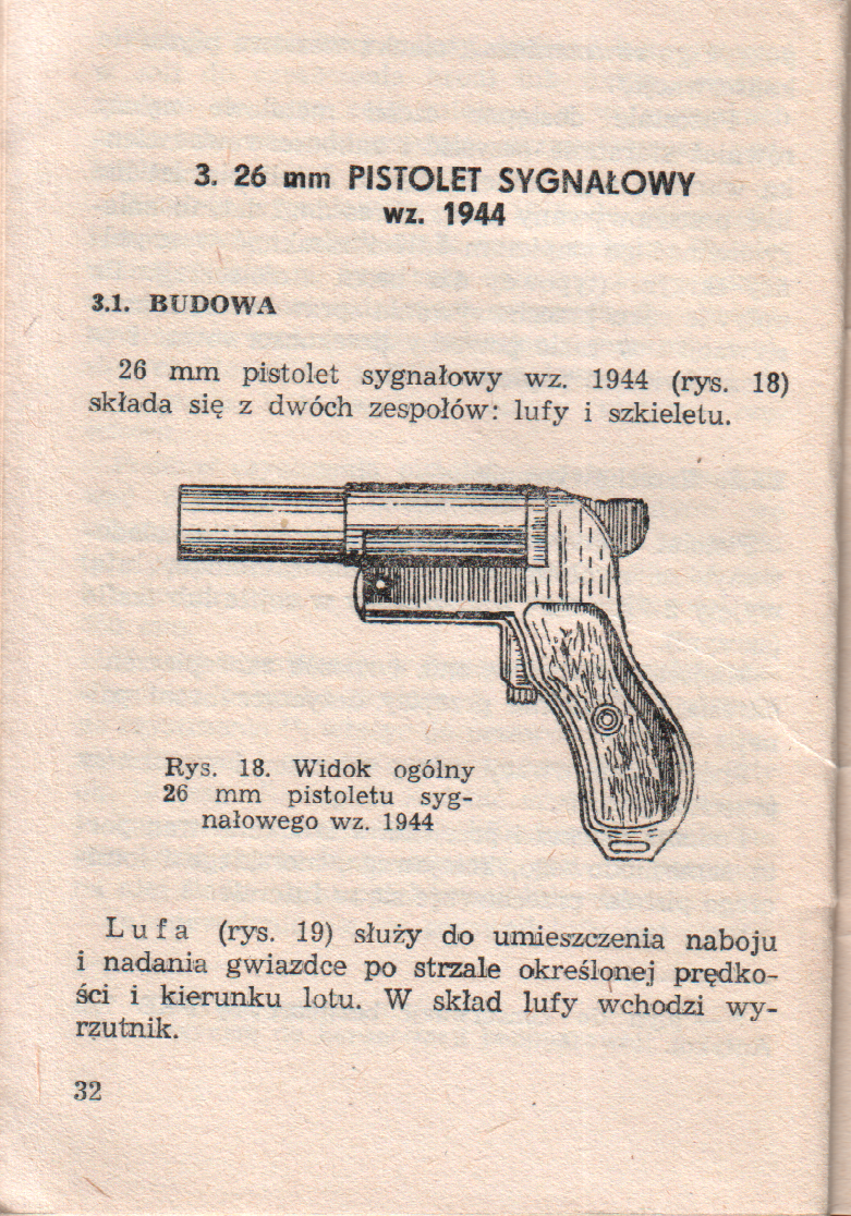 manual of Polish signal pistol mk. 1978 and mk. 1944